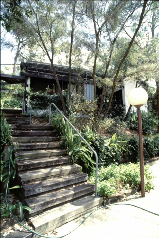 Student Residences, QUT Kelvin Grove Campus - stairs